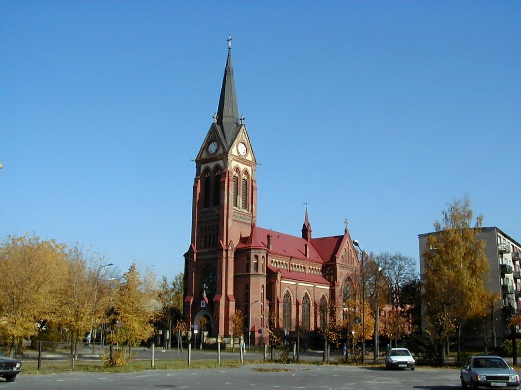 Jelgava Immaculate Virgin Mary Roman Catholic Cathedral